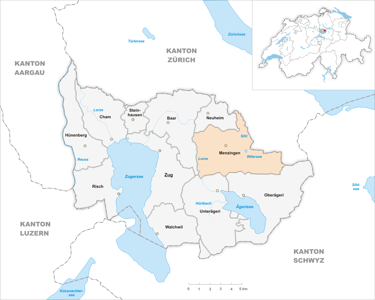 Municipality of Menzingen